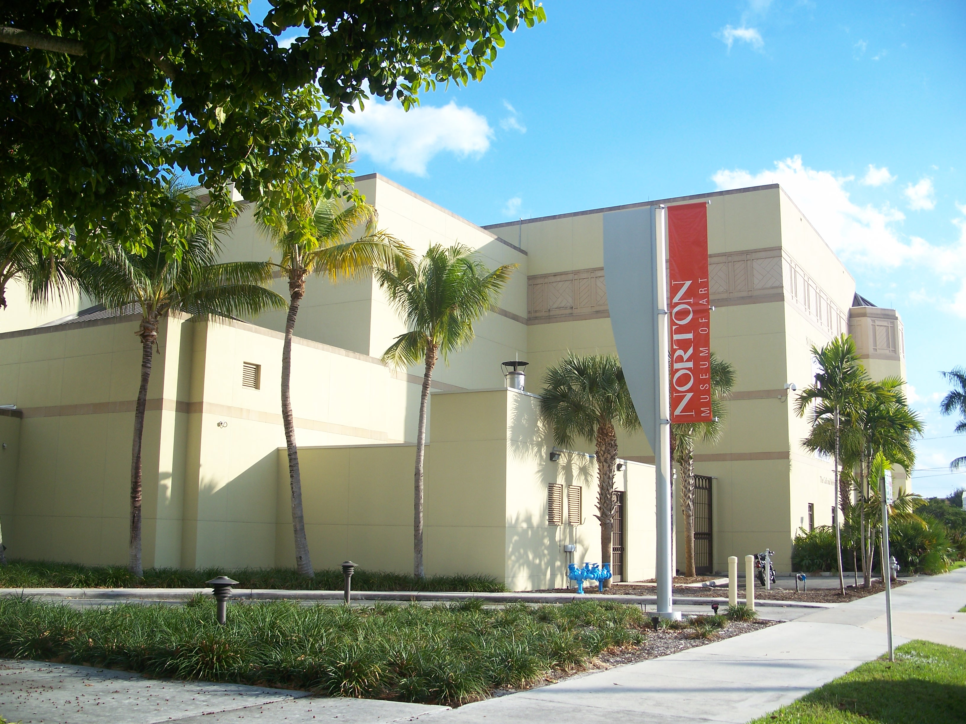 West Palm Beach, Florida: Norton Museum of Art